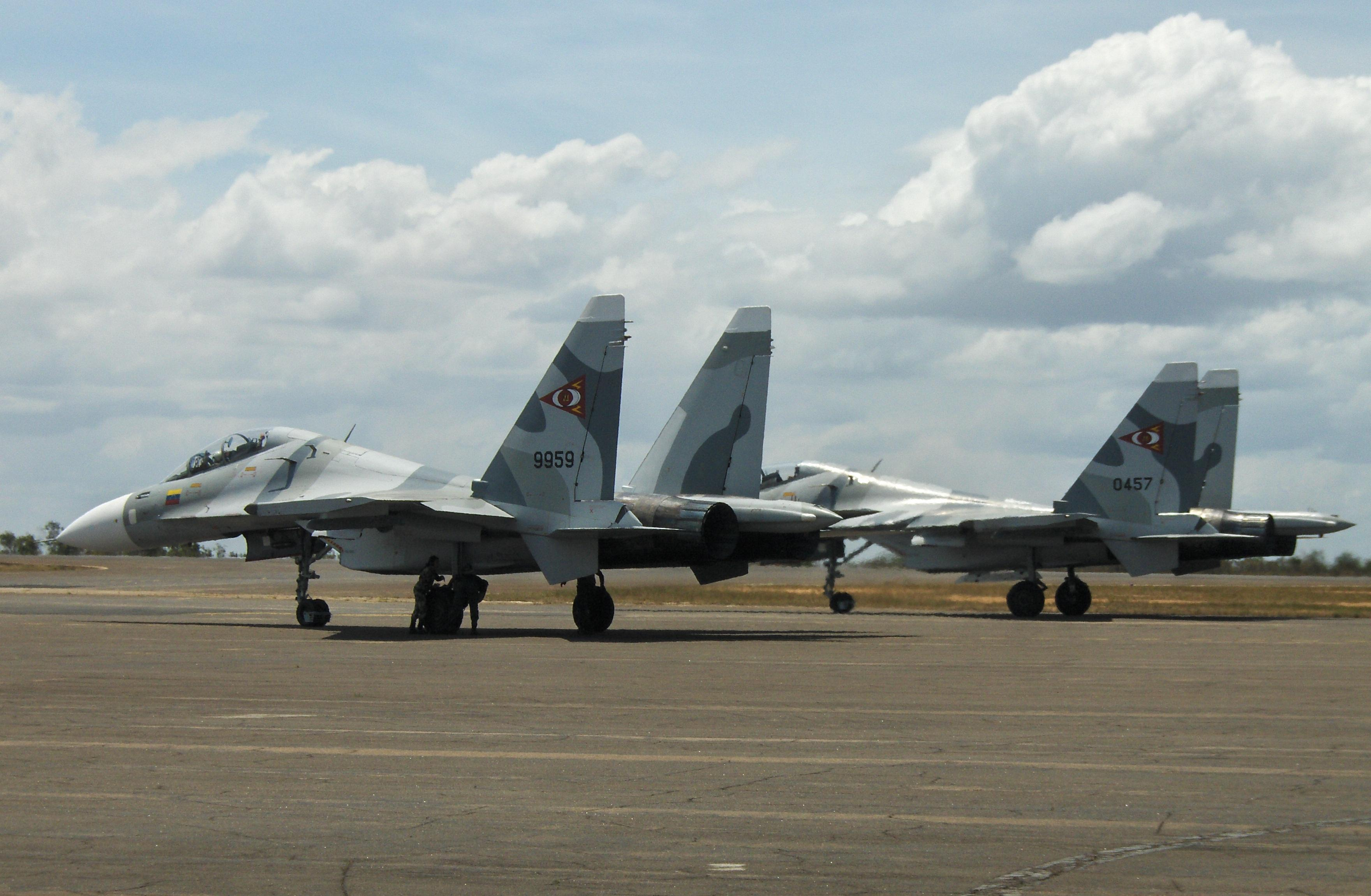 Two Su-30MK2 of Venezuelan Air Force